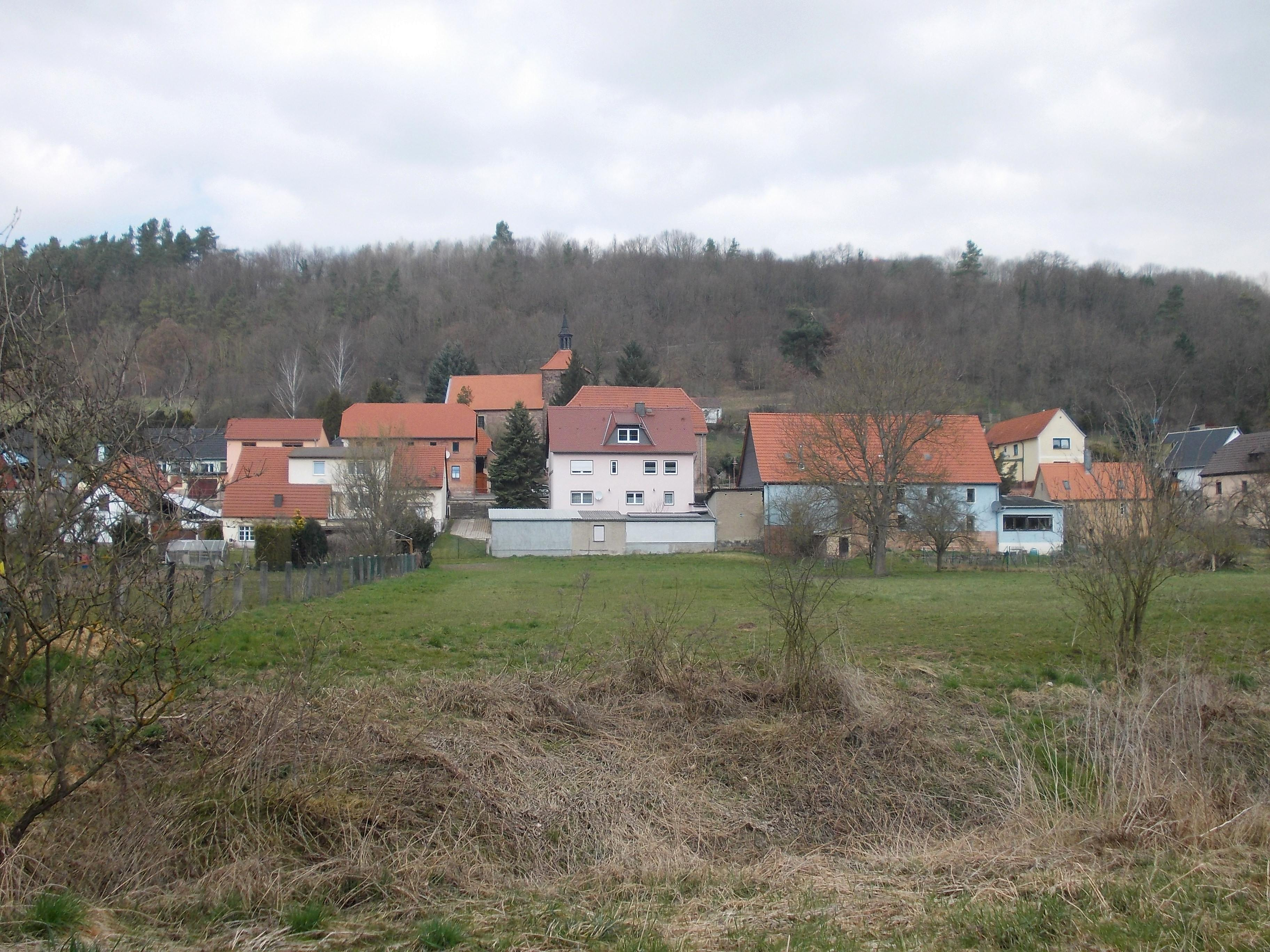 Thalwinkel (Bad Bibra, district: Burgenalndkreis, Saxony-anhalt) from the south